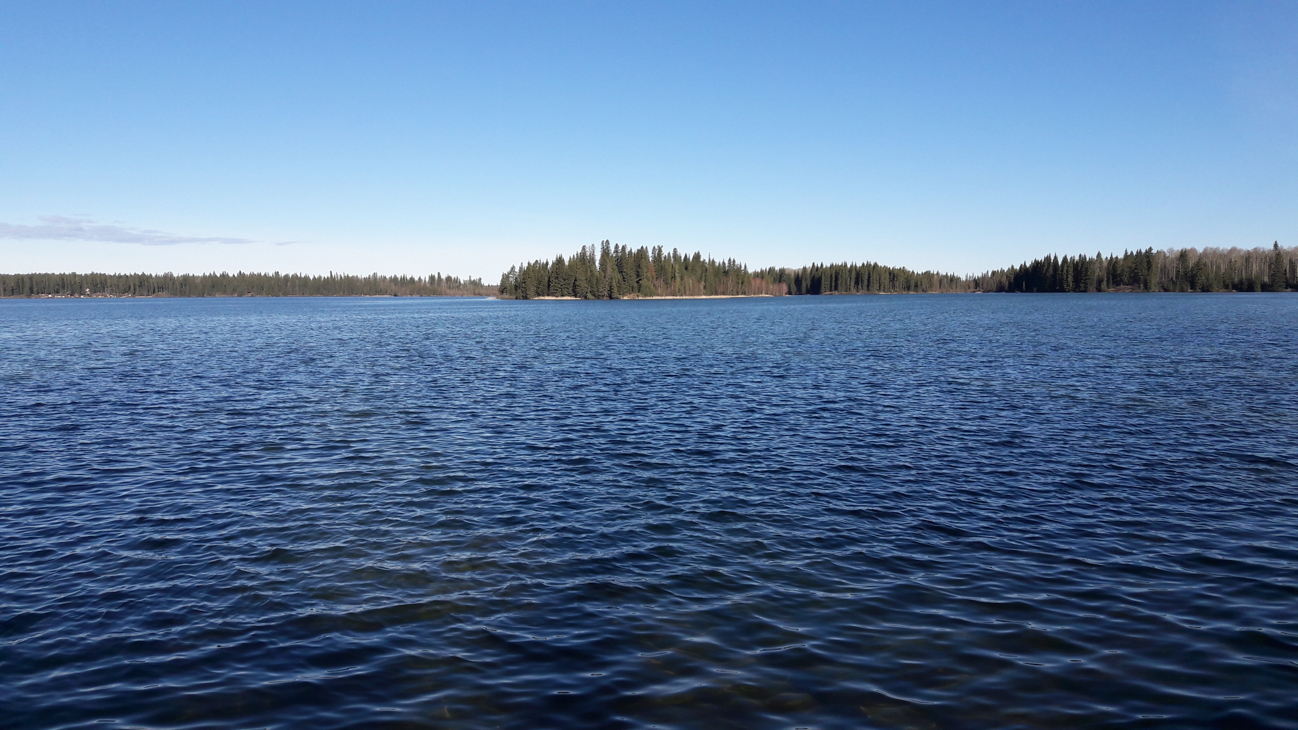 Crimson Lake Provincial Park This photo was taken in a protected area in Canada, Wikidata item Crimson Lake Provincial Park (Q5185702)